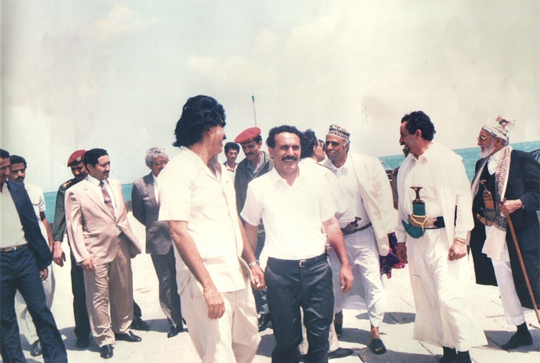 Ali Abdullah Saleh and Ali Salim Al-Beidh, picture was taken right the unification of Yemen 1990